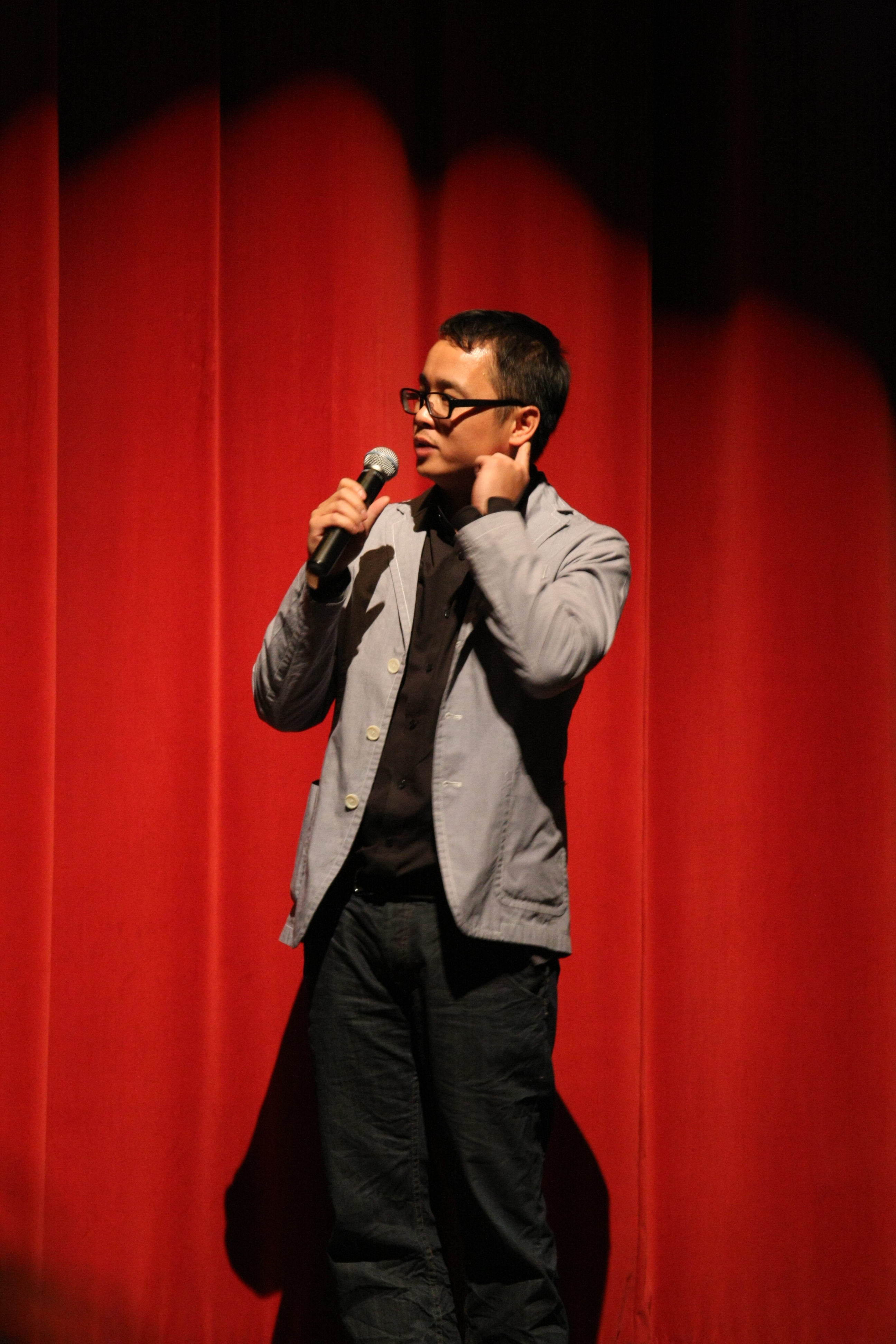 Chris Chong, director of the slow and quiet Karaoke, which I thought was almost imitating Hou Hsiao-hsien's movies at some points.